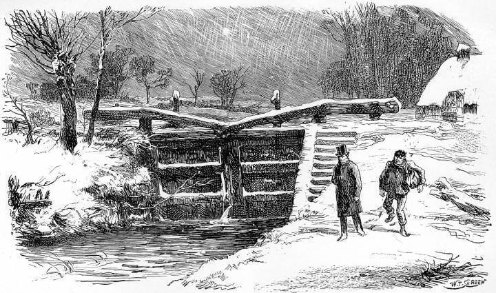 The blackmailing of Bradley Headstone by Rogue Riderhood